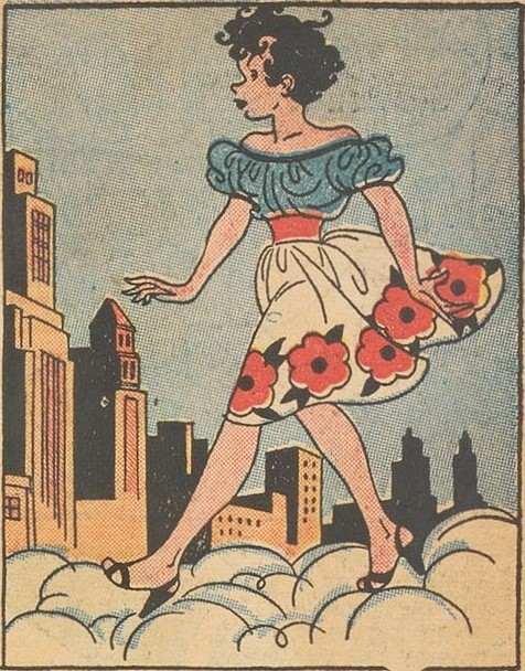 Excerpt of a single panel from a multi-paneled Mopsy comic published in Mopsy, Vol. 1, No. 1